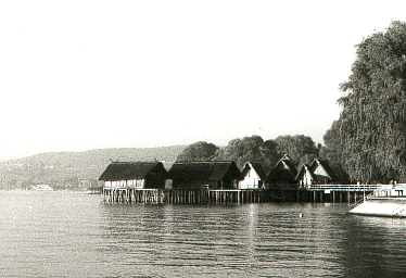 Reconstructed Stilt Houses in Unteruhldingen at Lace Constance